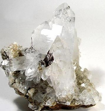 Brookite, Quartz Locality: Taftan, Chagai District, Balochistan (Baluchistan), Pakistan (Locality at ) Size: cabinet, 10 x 9 x 6 cm Quartz enclosing Brookite This specimen is the largest specimen I have seen of quartz associated with brookite in good quality. It is a pristine, jewel-like, sparkly cluster of quartz that is good on its own merit. Within the cluster, is a 2 cm brookite crystal whose termination is totally enclosed within one of the quartz points in teh cluster. You can look right in through the quartz to see it! This is an attractive and unusual specimen.